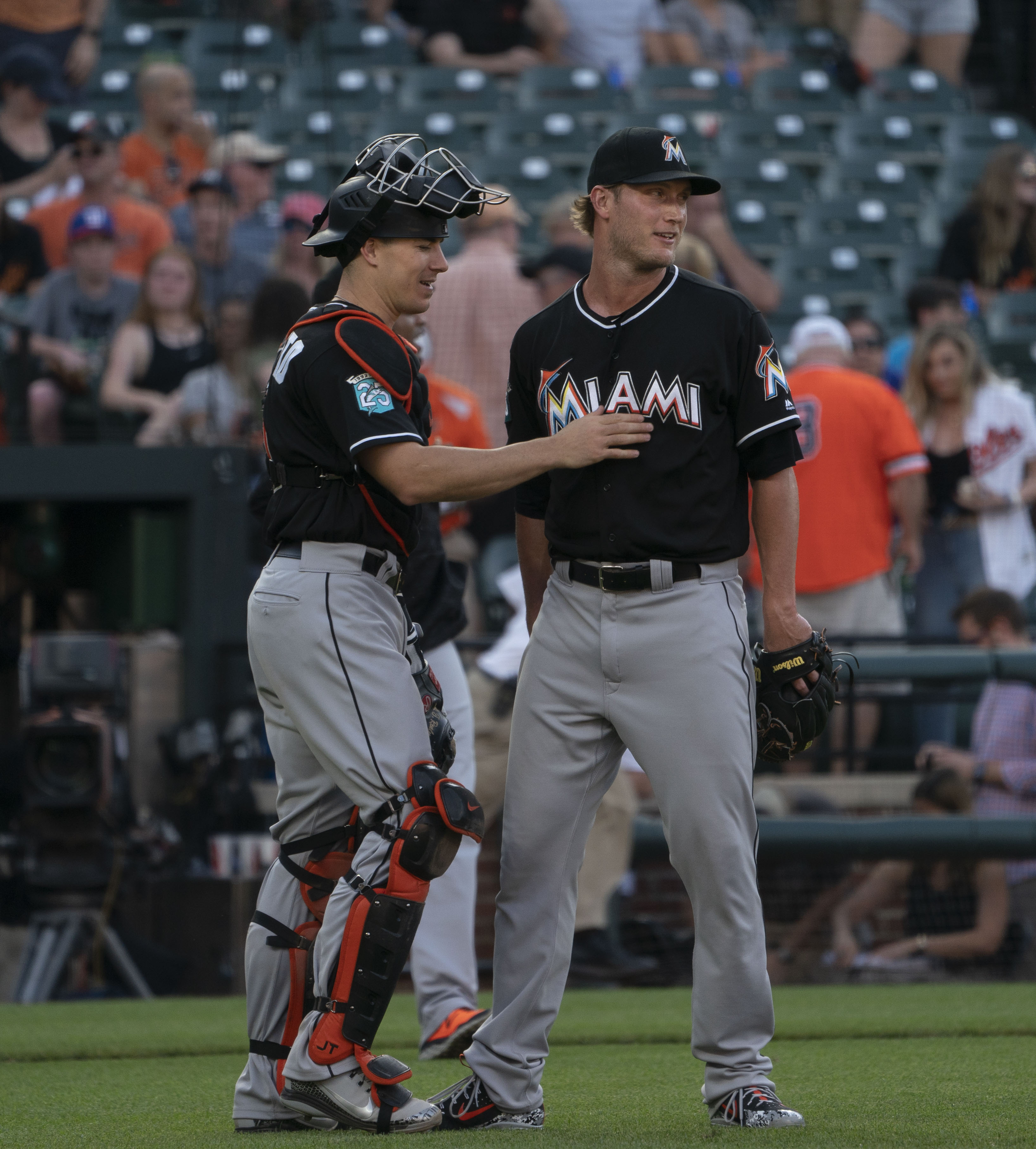 J. T. Realmuto (left) and Drew Streckenrider of the Miami Marlins at Camden Yards in Baltimore during a 2018 game against the Baltimore Orioles